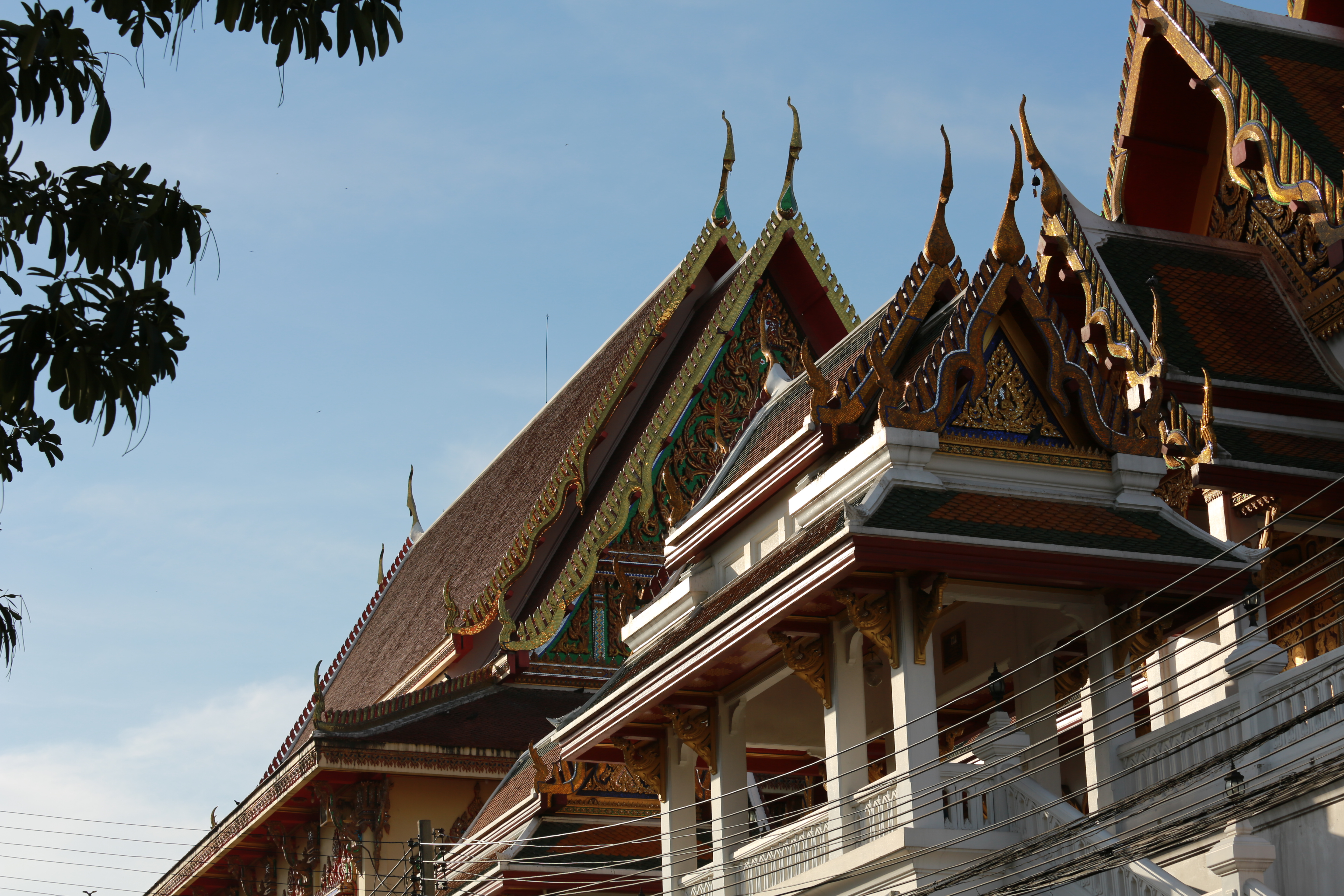 luangpoopuk Mondhop